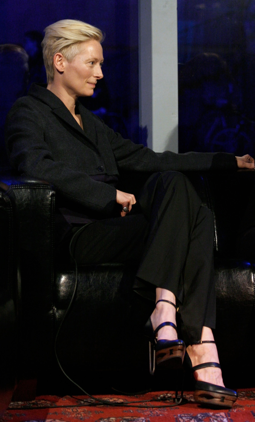 Tilda Swinton talking with the audience during the Vienna International Film Festival 2009.